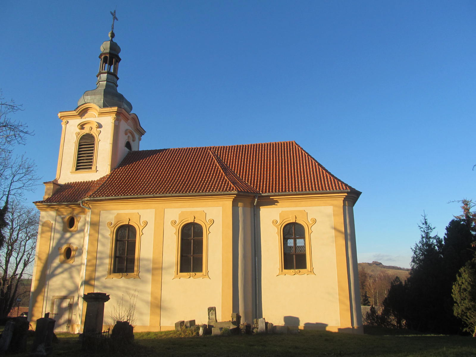 Church of St. Clement in Chlumčany (Louny District)